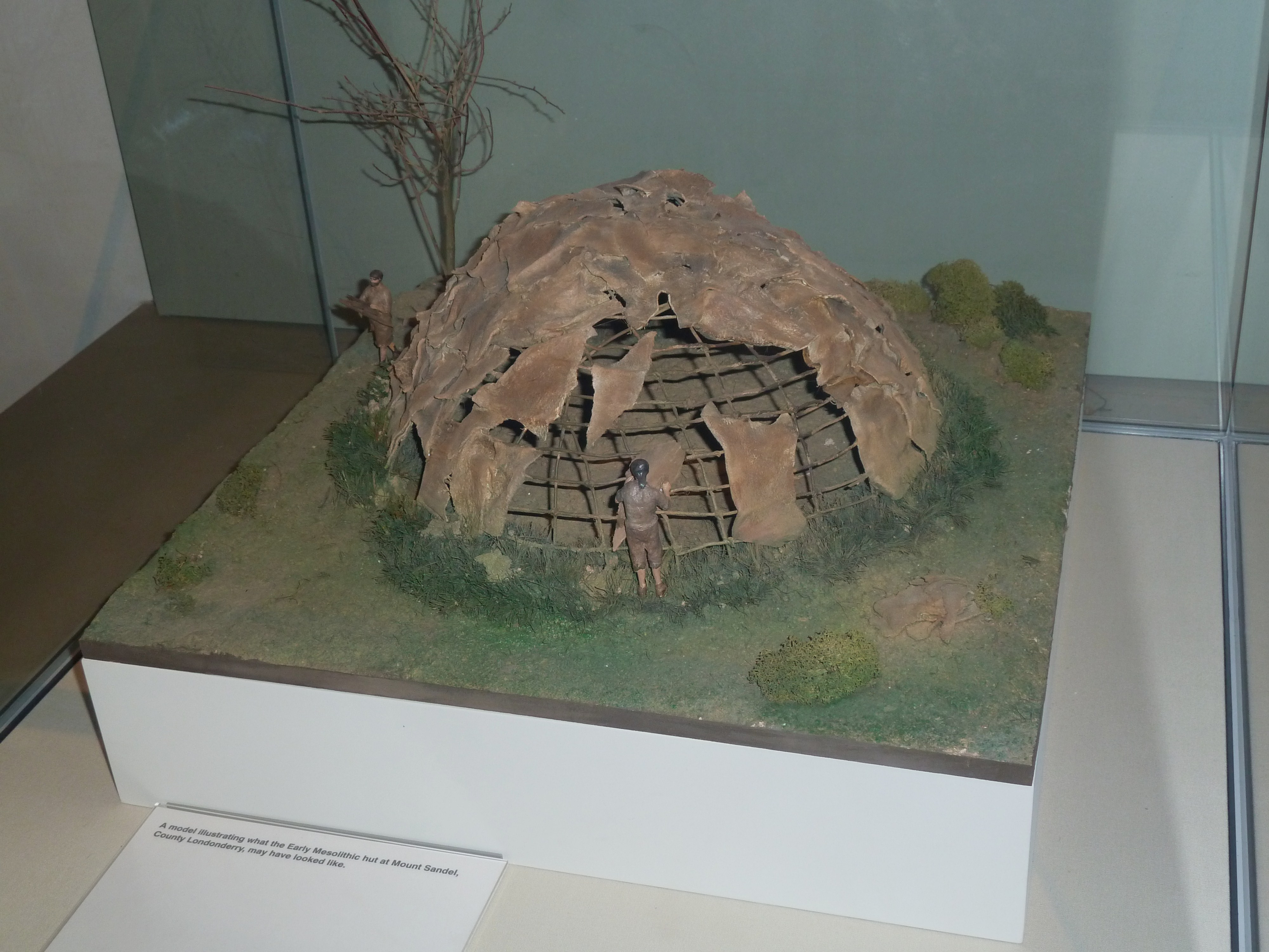 Ulster Museum Model (hypothetical but evidence based) of a Mesolithic hut at Mount Sandel, Co. Londonderry, Ireland. The remains of six round huts were found at Mount Sandel from about six meters in diameter with a central hearth. The seventh House is small, only about three feet in diameter and has an outer stove. The huts were made a frame of bent, set in post holes in the bottom branches, which were probably covered with skins.